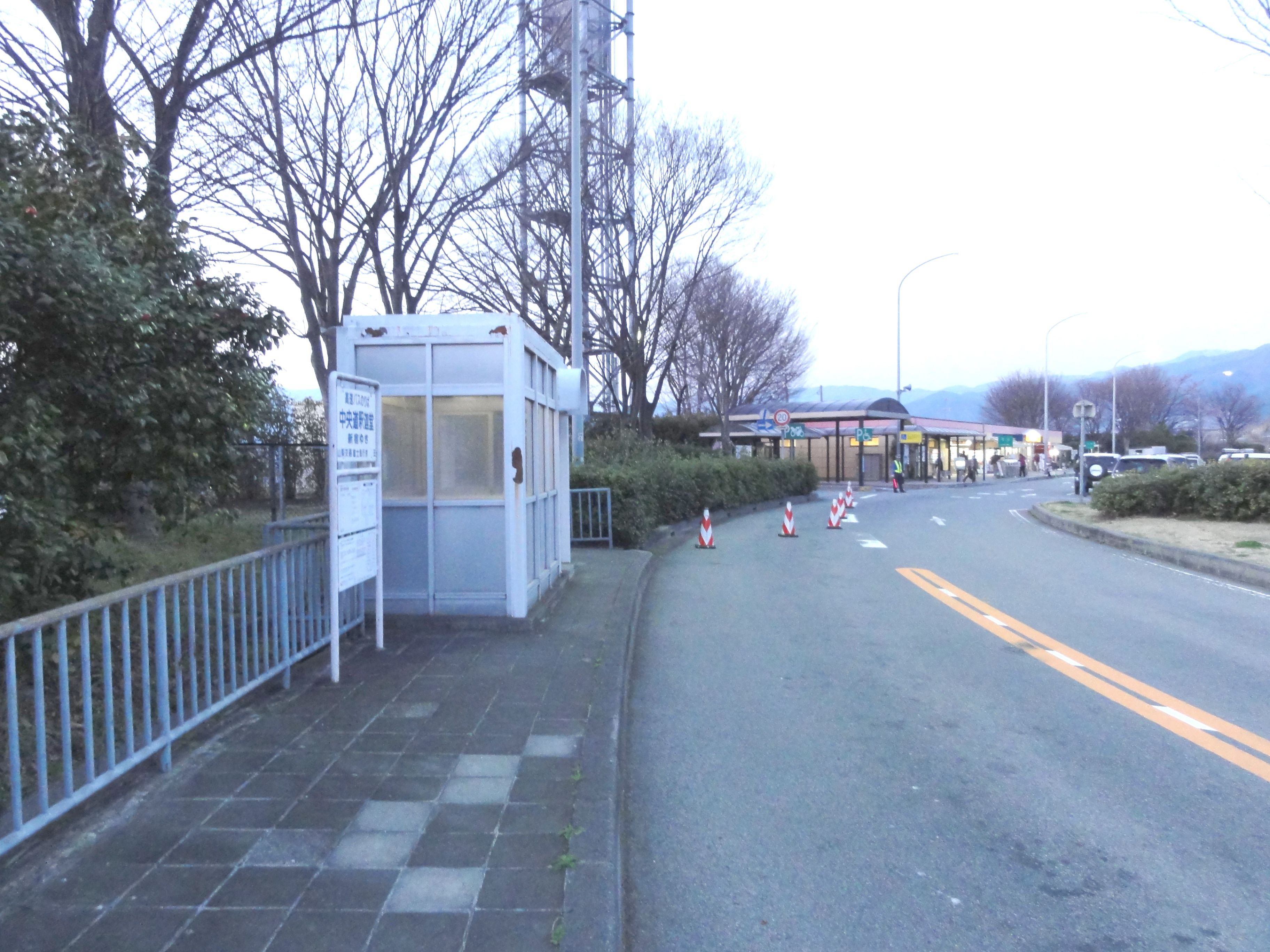 Chuo Expressway Shakado Bus Stop